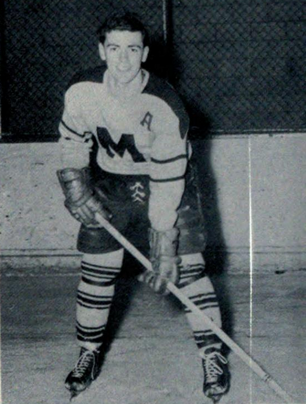 Paul Conlin, circa 1962